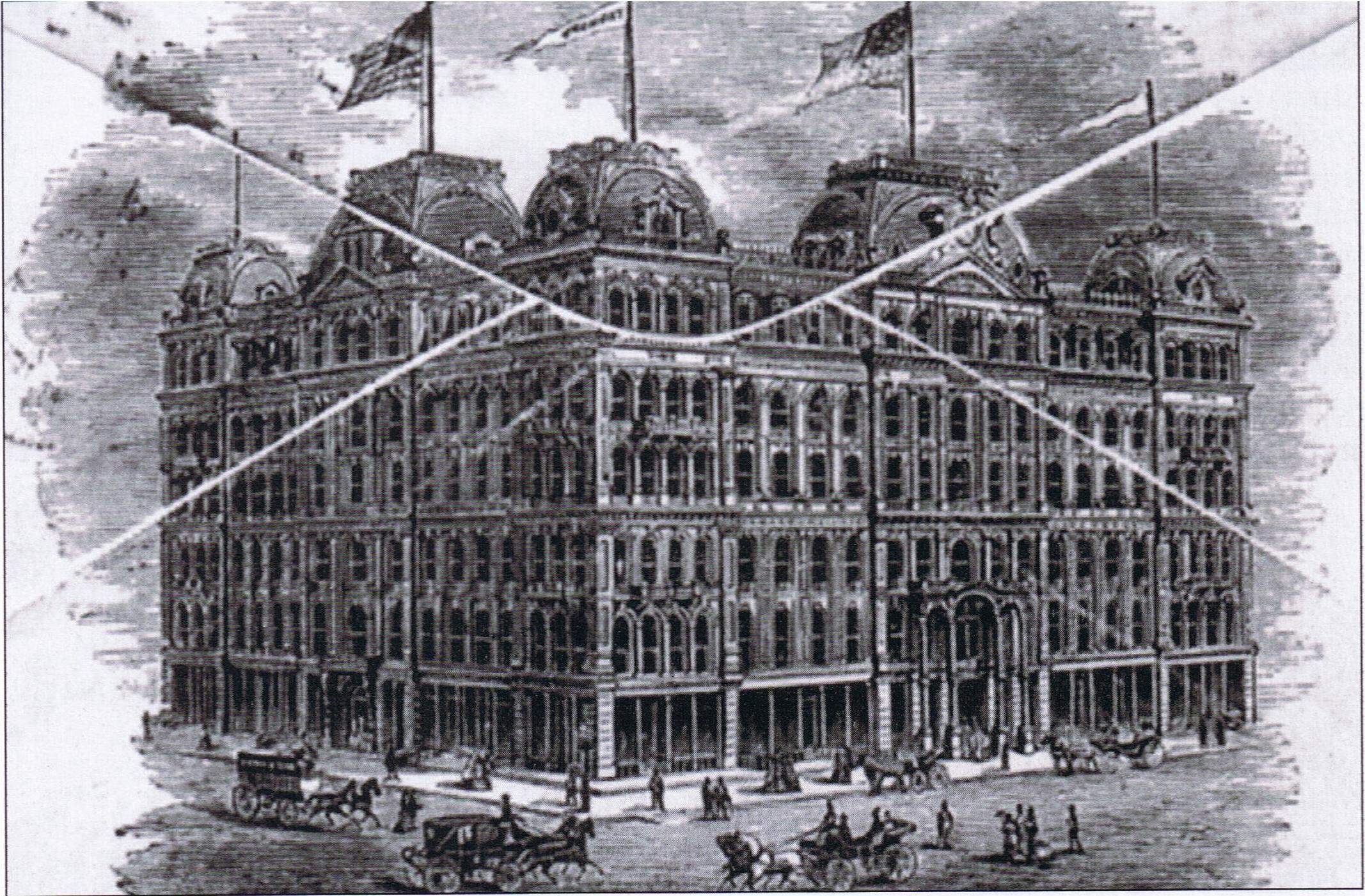 Tremont House 4th building